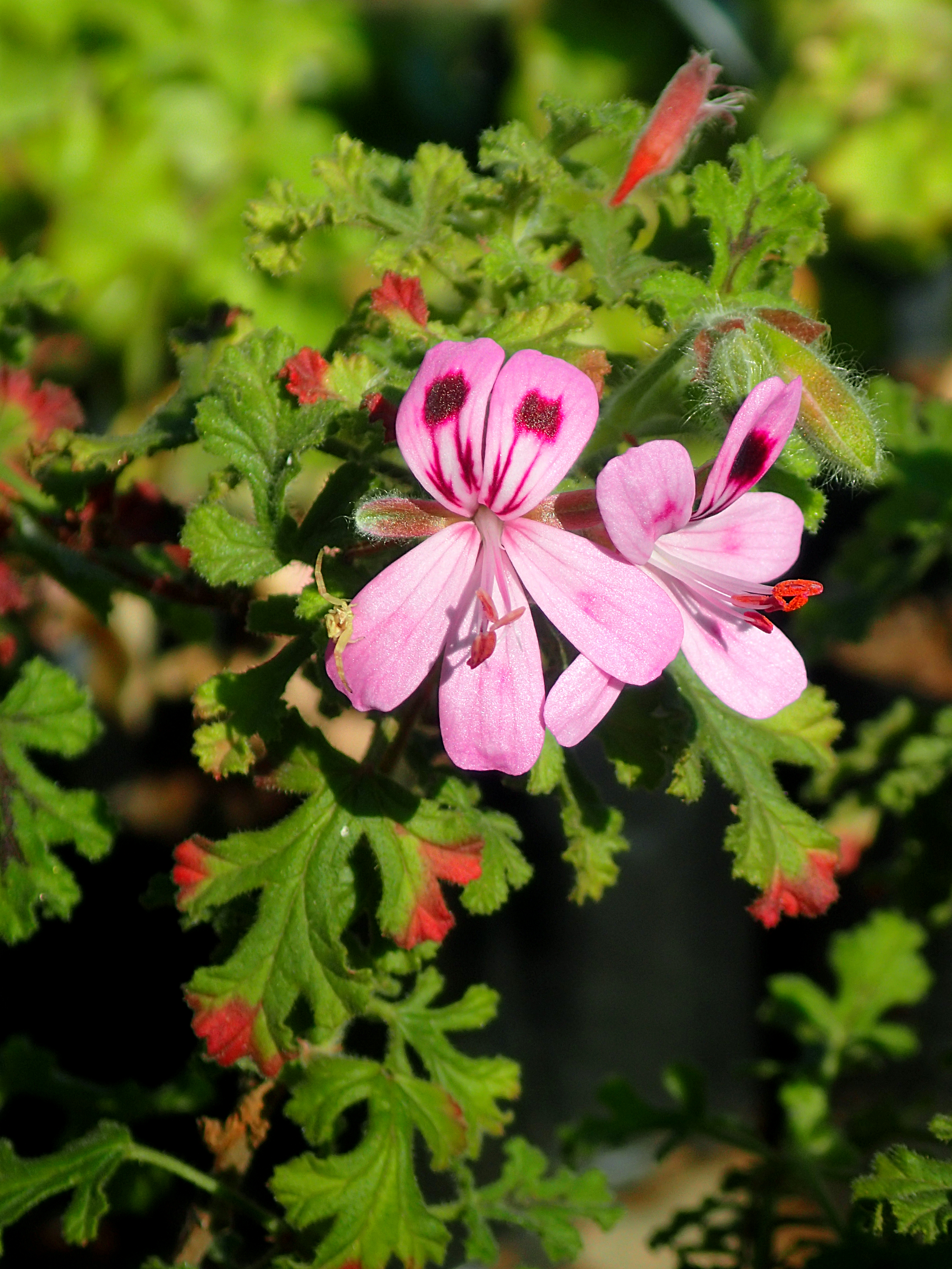 oakleaf geranium, Pelargonium quercifolium, photographed in a shade house of the Karoo National Botanical Gardens,Worcester, South Africa